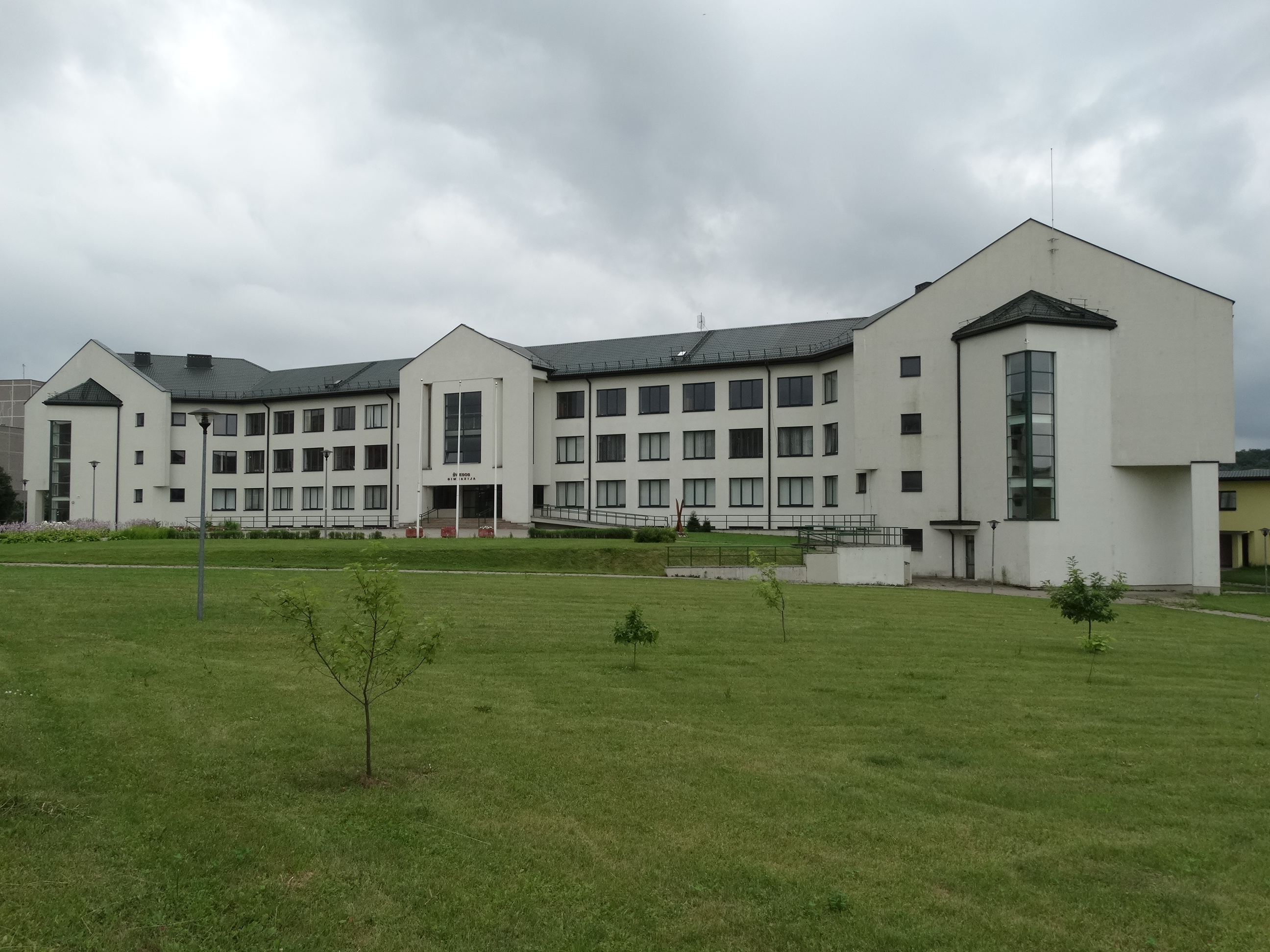 Gymnasium „Šviesa“, Grigiškės, Lithuania